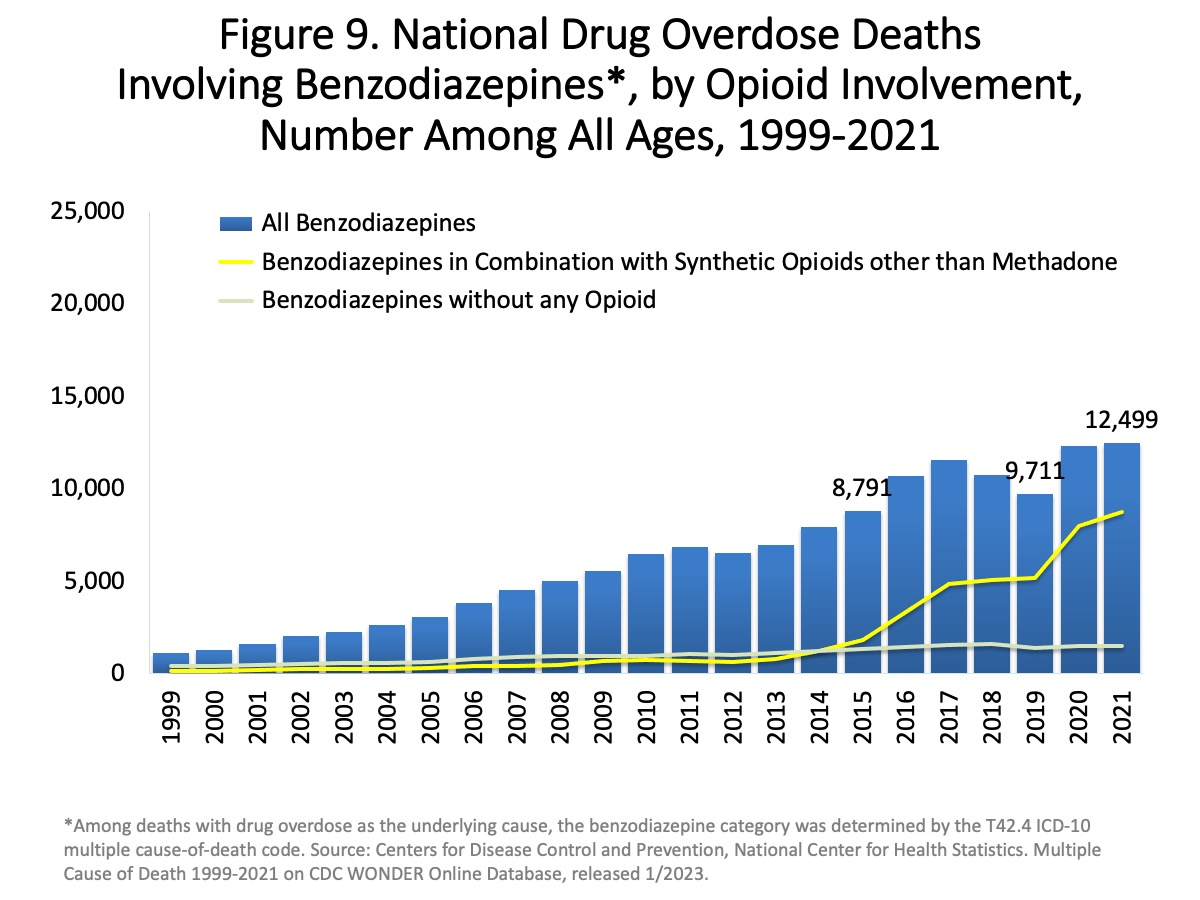 ​"National Overdose Deaths—Number of Deaths Involving Benzodiazepines, with and without opioids. The benzodiazepines from 2002 to 2016, with the yellow line representing the number of benzodiazepine deaths that also involved opioids, and the orange line representing benzodiazepine deaths that did not involve opioids. From 2002-2016, benzodiazepine deaths involving opioids increased six-fold more than those not involving opioids."